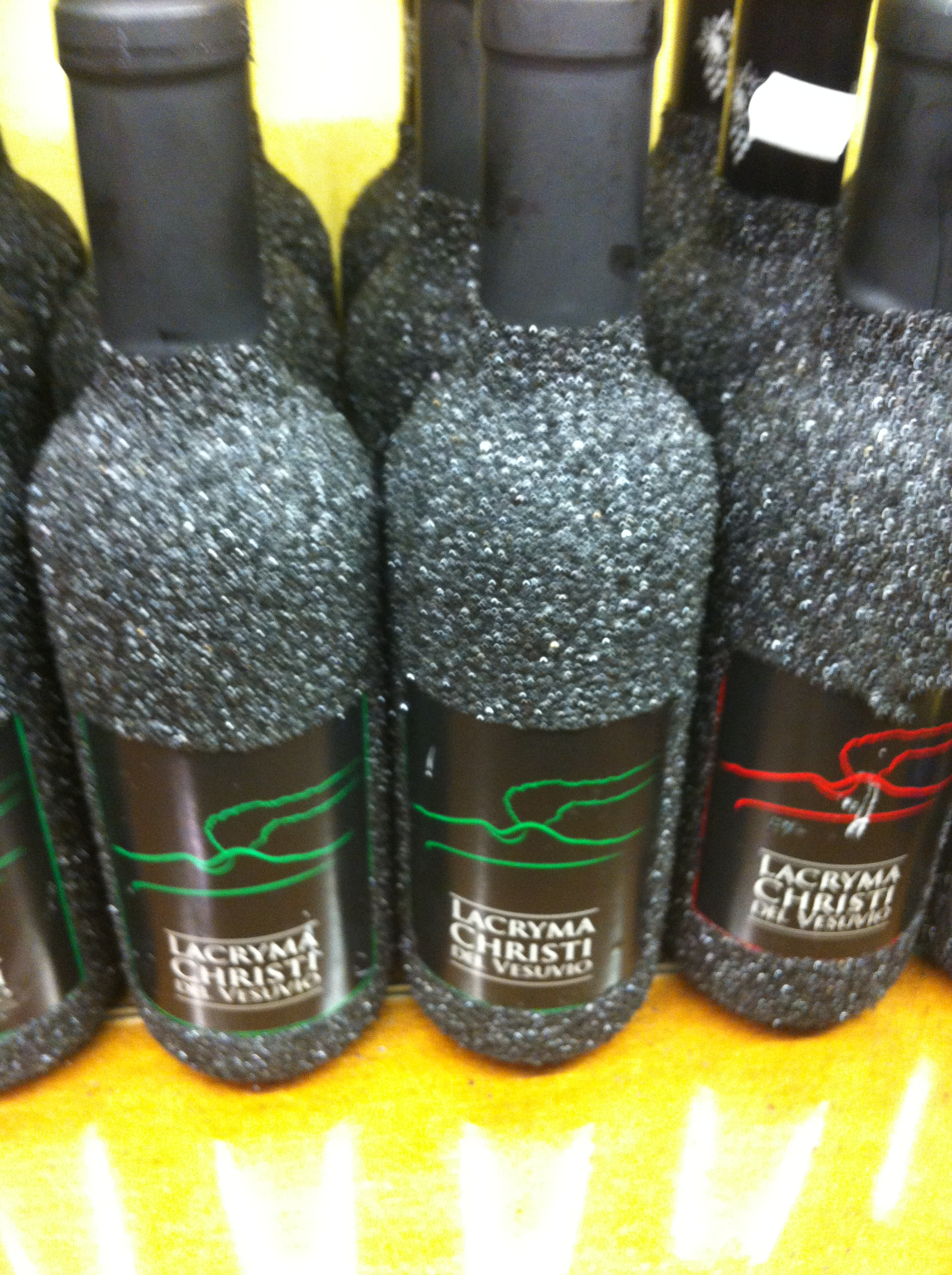 Italian wine from the Campania region of southern Italy near Naples. Sold outside a gift shop by Mt. Vesuvius.